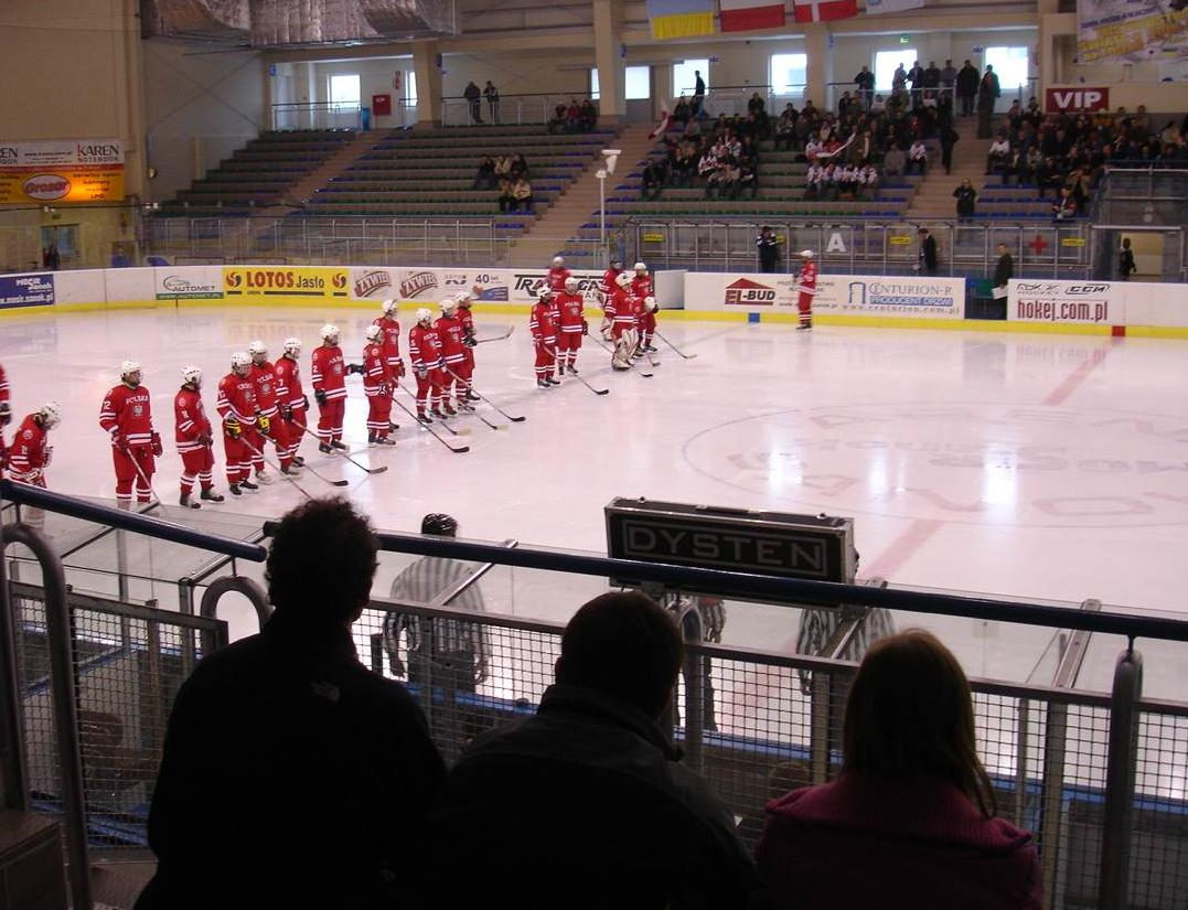 KH Sanok ice hockey club, Poland